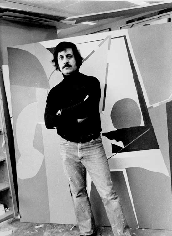 Photo of the artist Sari Ibrahim Khoury